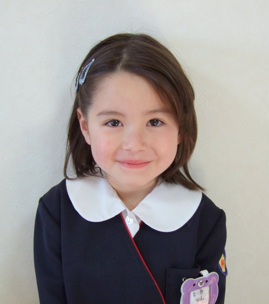 Lin in her new kindergarten uniform